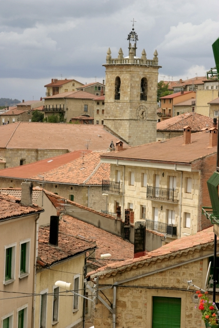 View of Quintanar de la Sierra